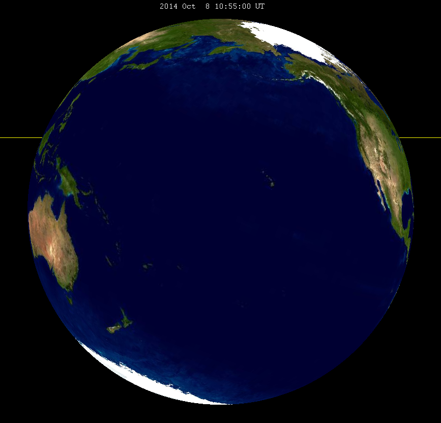 October 2014_lunar_eclipse view of earth The orientation of the earth as viewed from the center of the moon during greatest eclipse. thumb